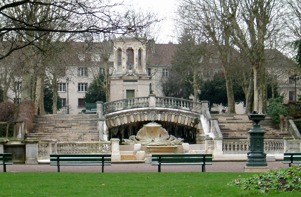 Dijon, Burgundy, France